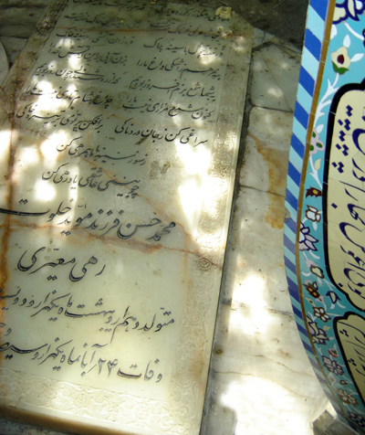 Rahi Mo'ayeri. Photo taken by Zereshk.